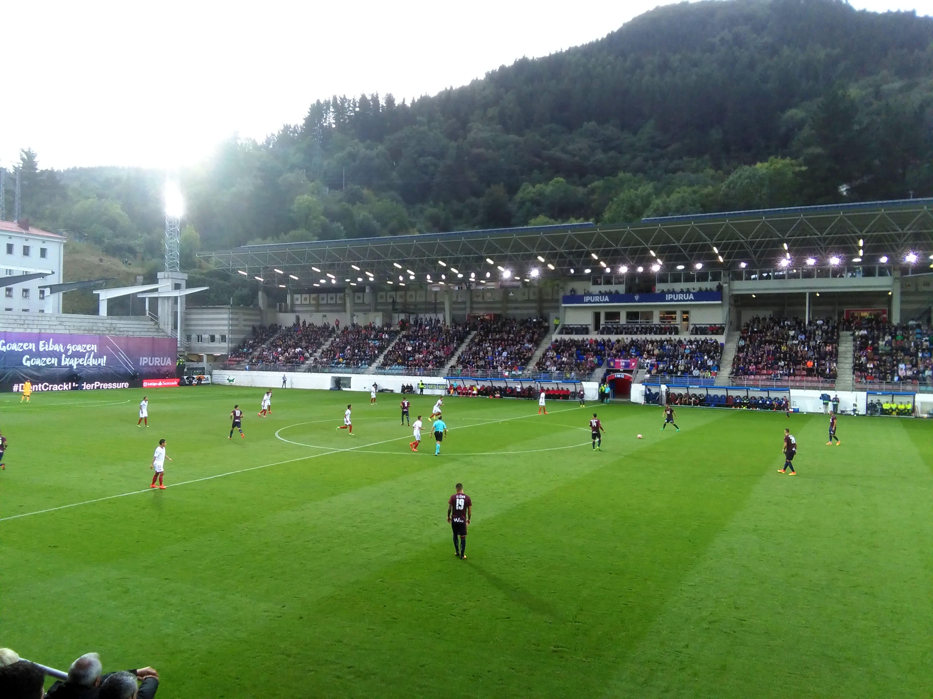 Ipurua, Eibar 1-1 Sevilla